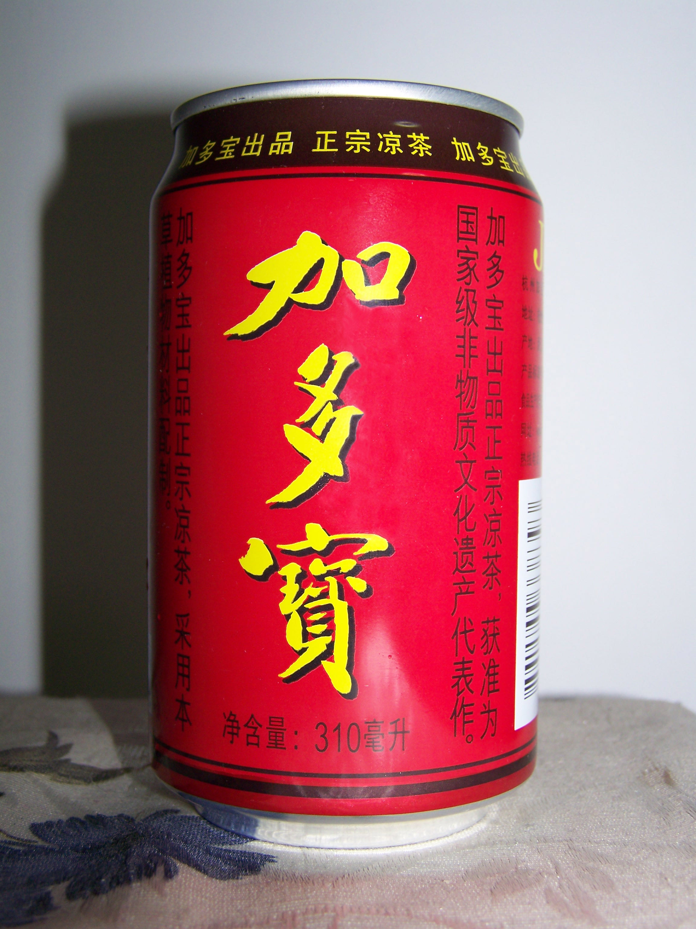 JDB herbal drink. See also: Wong Lo Kat